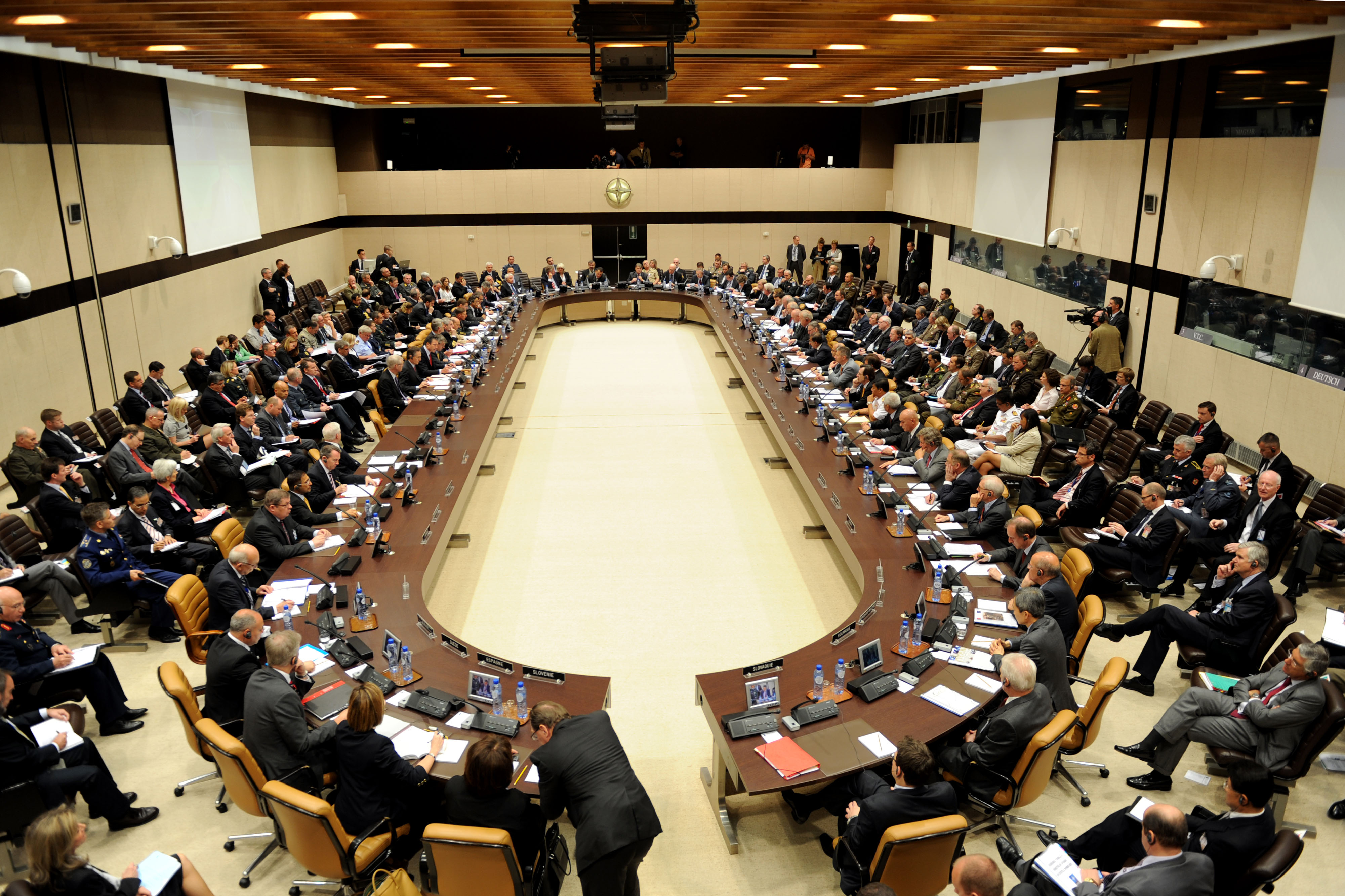 Secretary of Defense Robert M. Gates attends the NATO and non-NATO ISAF contributing nations meeting during the NATO formal Defense Ministerial in Brussels, Belgium, on June 9, 2011.